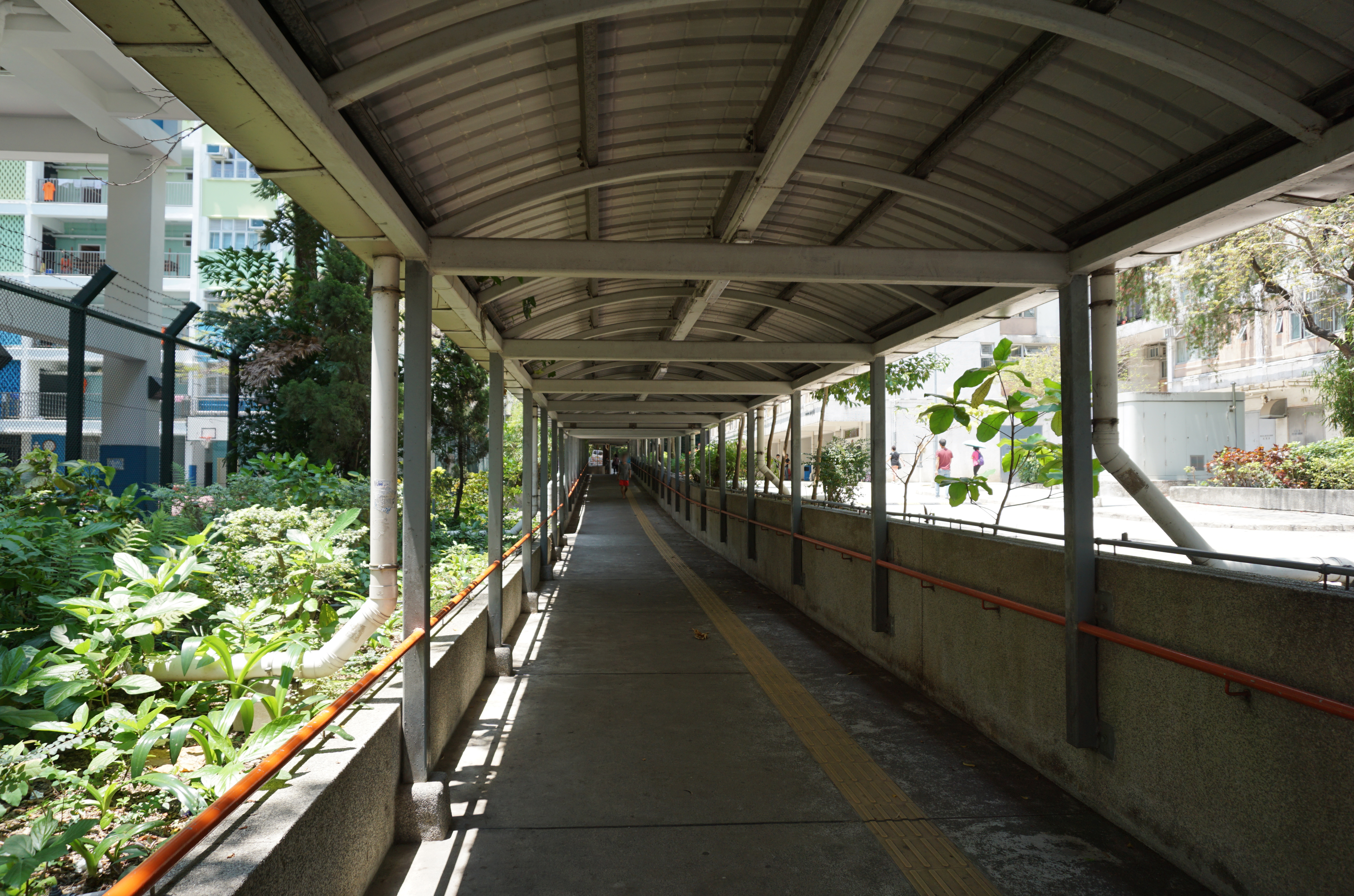 Lei Cheng Uk Estate in Cheung Sha Wan, Hong Kong.